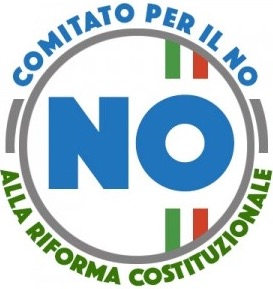 Comitato per il No